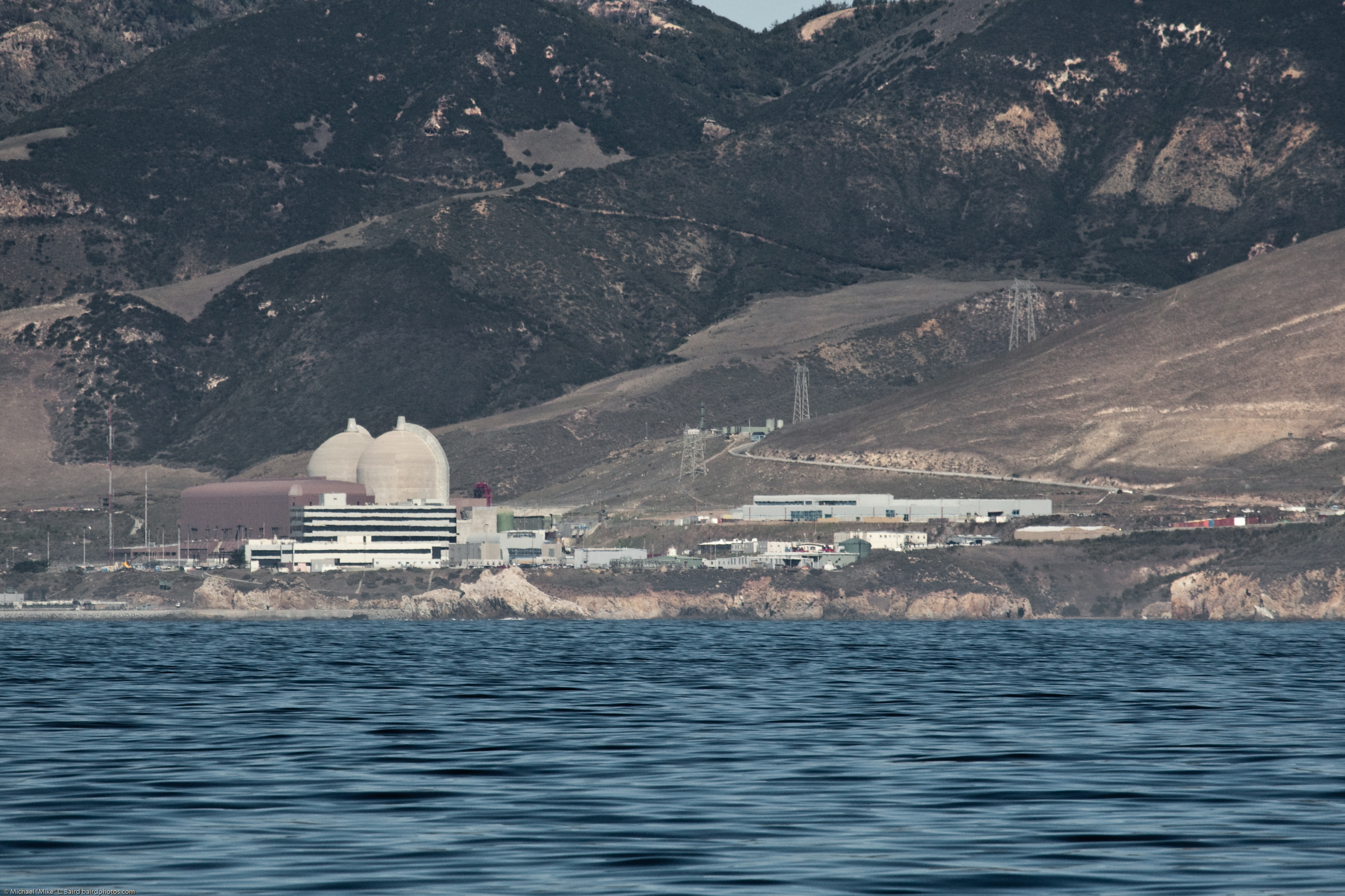 The Diablo Canyon Power Plant and hills, north of Avila Beach (former Port San Luis), in San Luis Obispo County, California. Photo taken from offshore. Note that photo title in file name is incorrect (my bad).